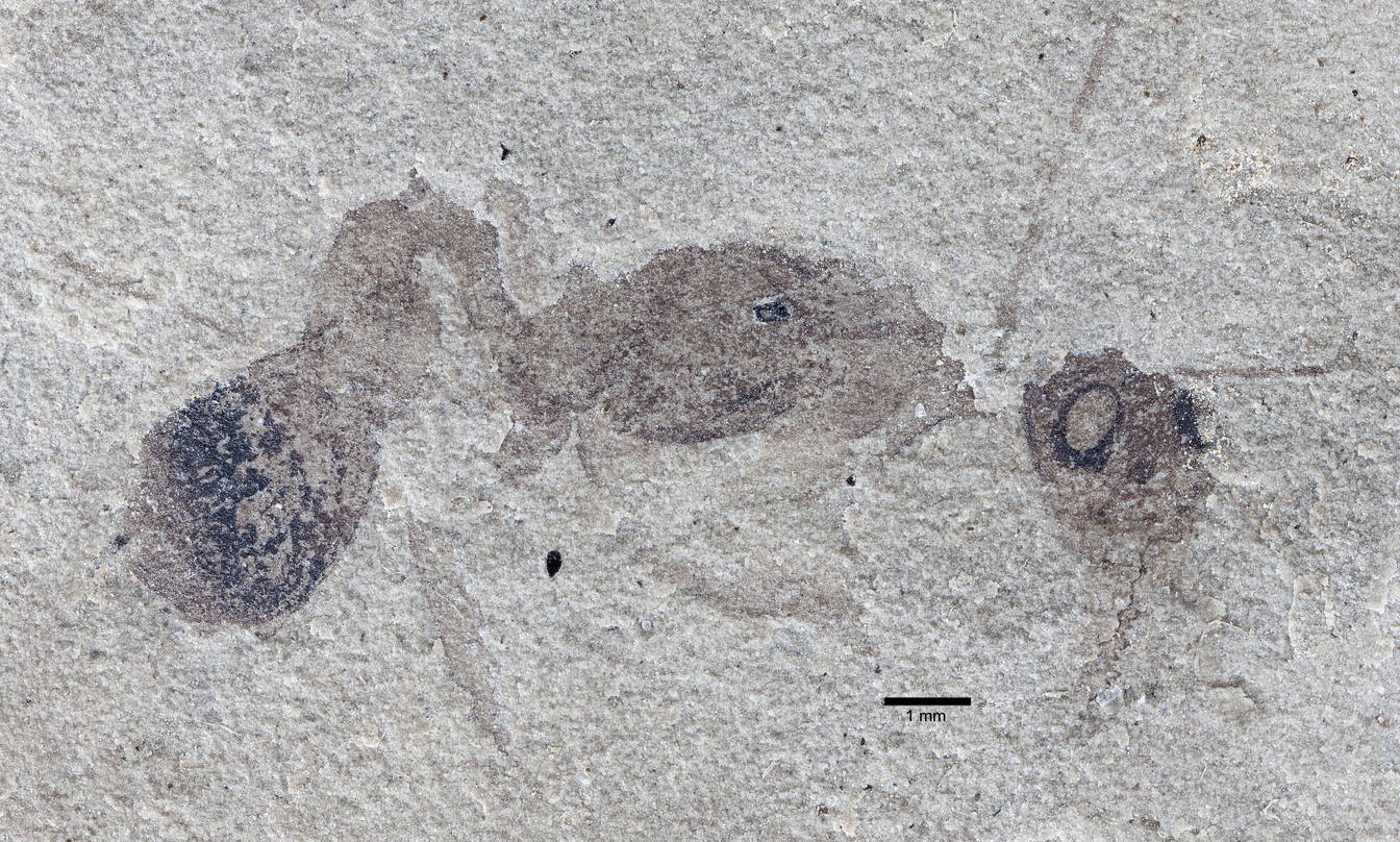 Profile view of the Archimyrmex rostratus holotype. Specimen "UCM15174". Eocene, Green River Formation.